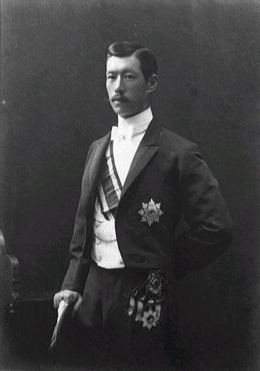 Tokugawa Yorimichi